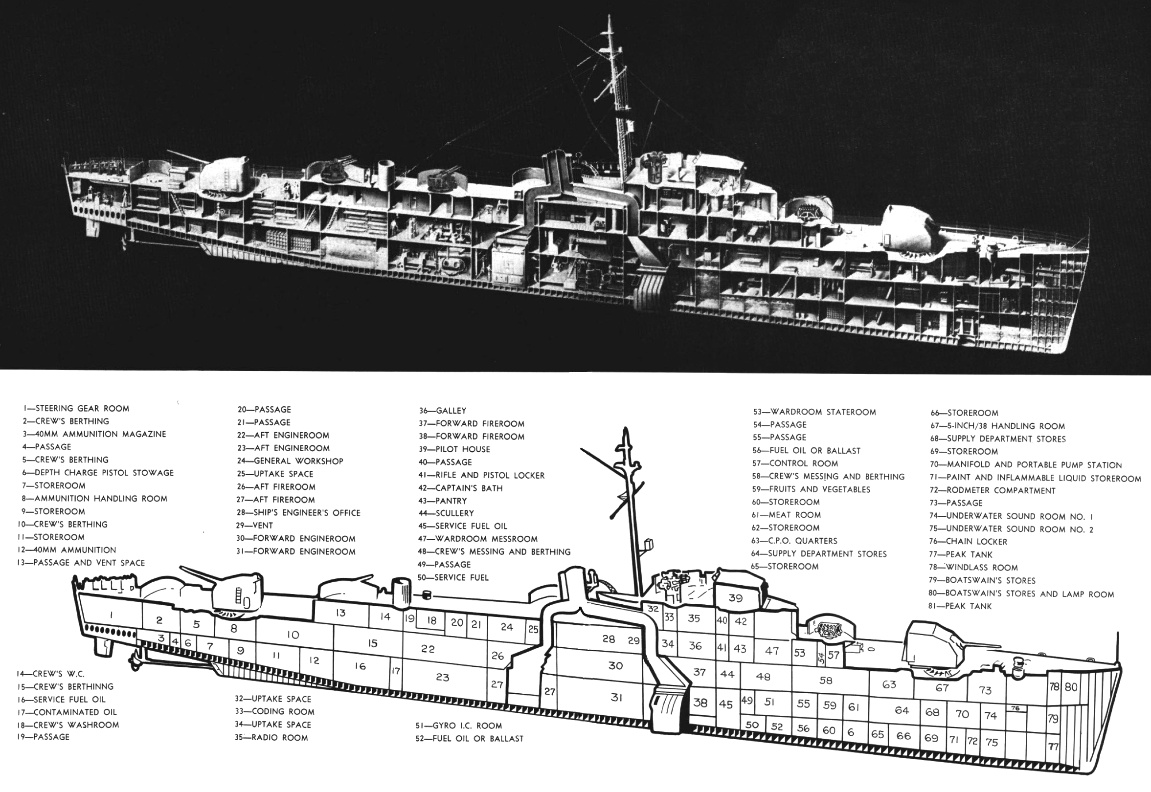 Diagram showing a U.S. Navy escort destroyer ("DE"). The type shown is a Rudderow or John C. Butler-class DE. The main difference was the propulsion plant, the Rudderow-class had a General Electric steam turbo-electric drive engine, whereas the John C. Butler-class had Westinghouse Geared Turbine drive.